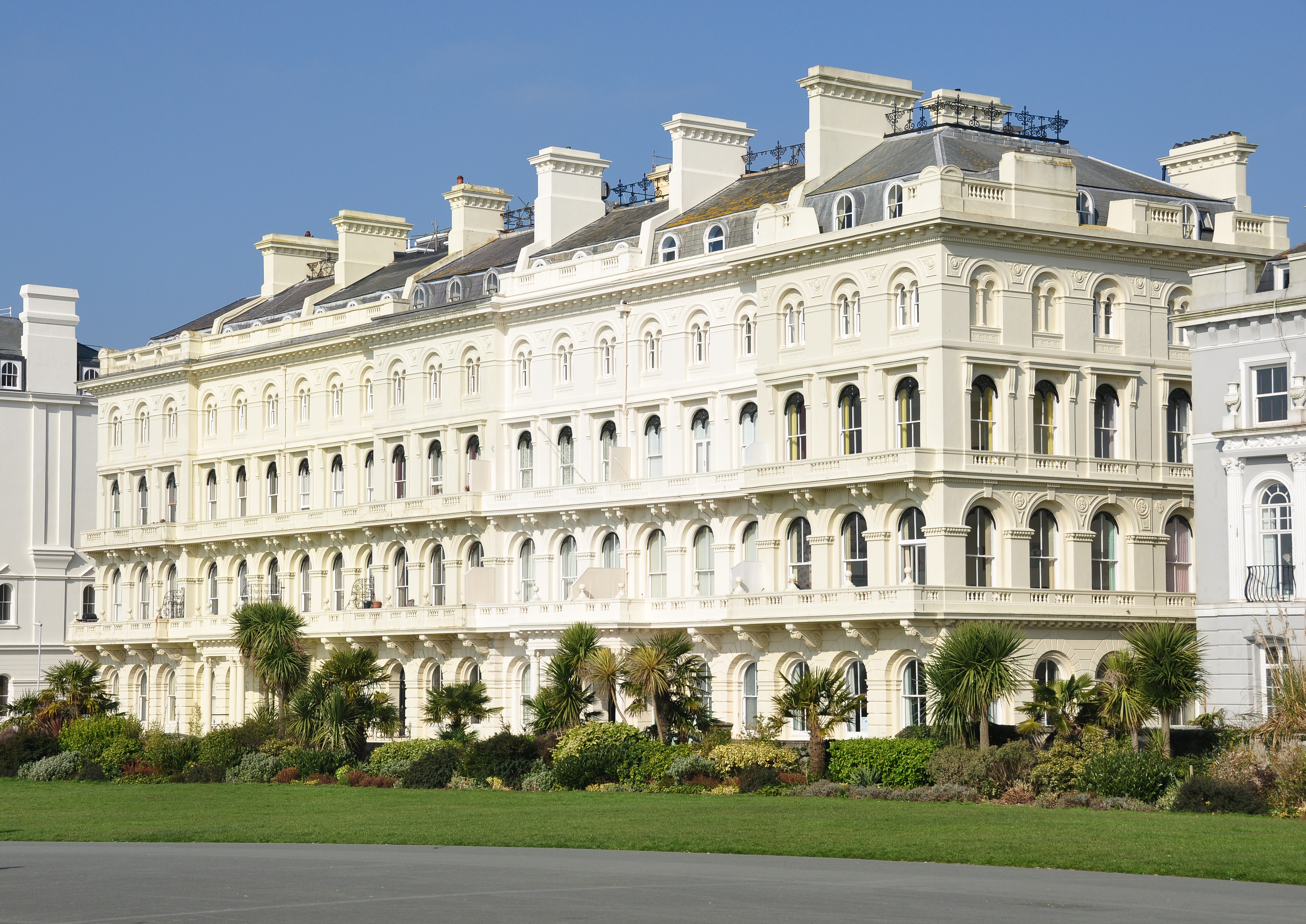 Elliot Terrace (Numbers 1 to 8 Including 6a) on Plymouth Hoe.